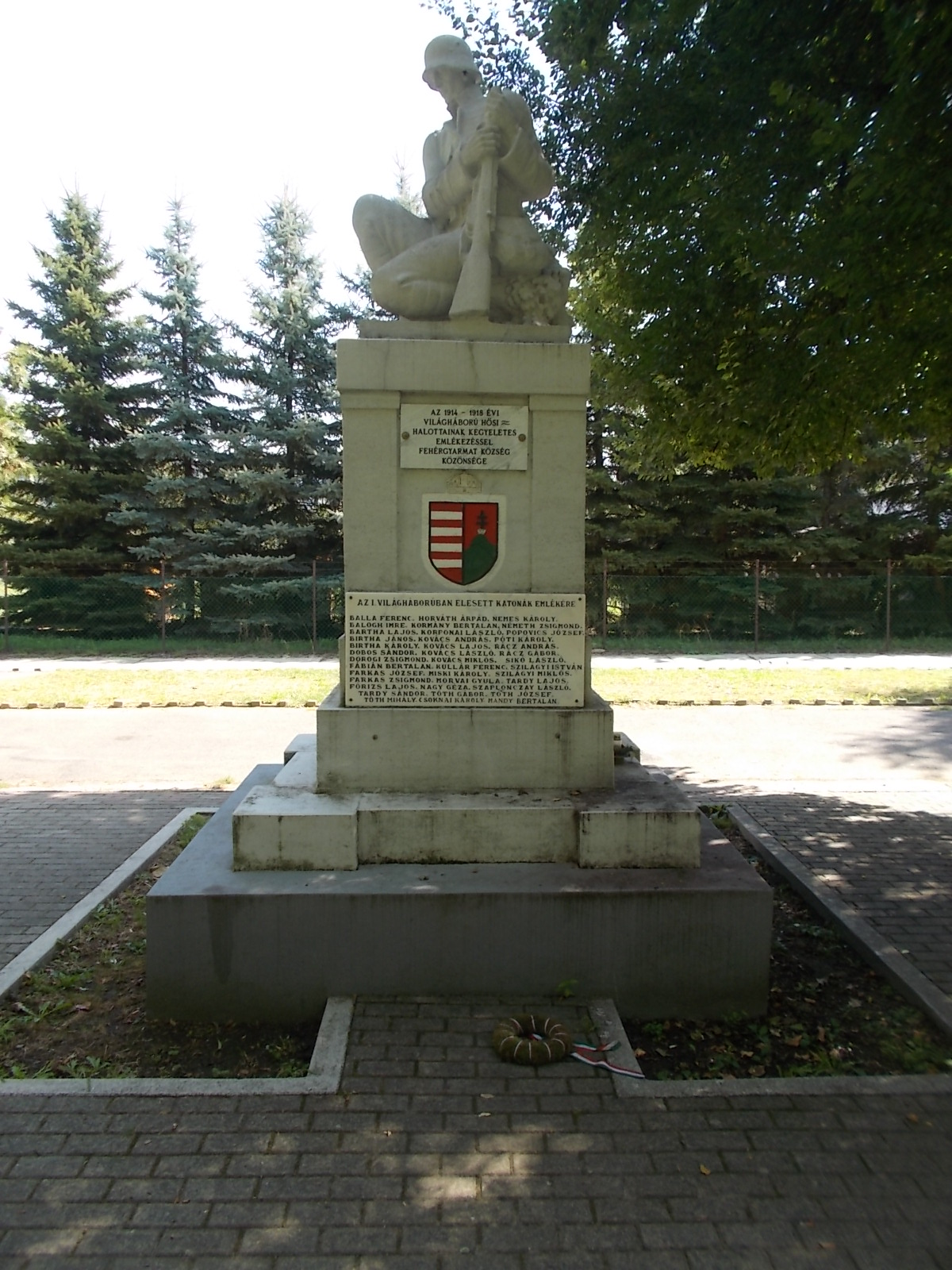 World War I and II Memorial by Jenő Martinelli (1945 Bronze statues and marble plaques with the names of war victims). - Kossuth Square, Fehérgyarmat, Szabolcs-Szatmár-Bereg County, Hungary.